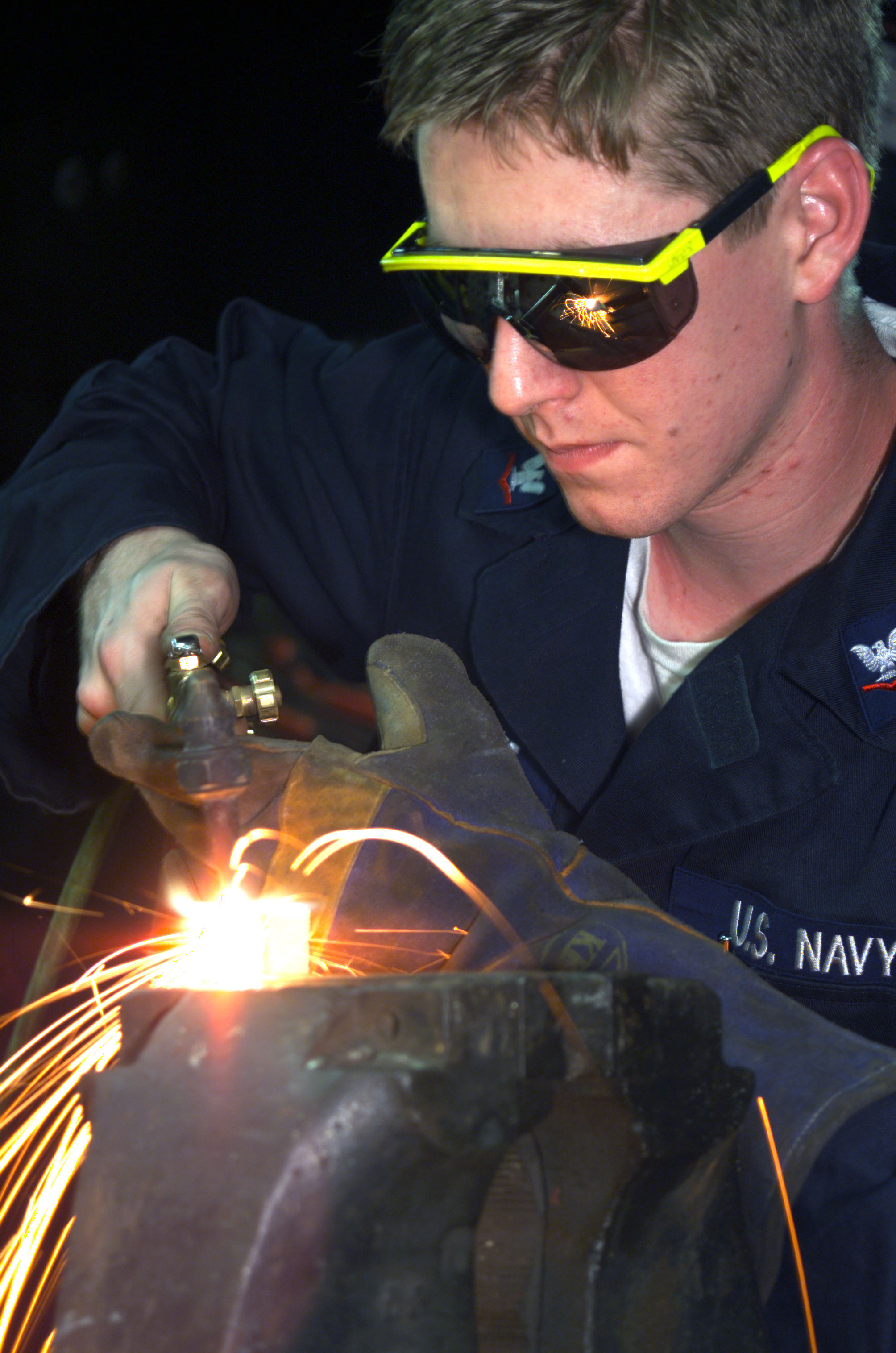 020202-N-5563S-001 At sea aboard USS Blue Ridge (LCC 19) Jan. 31, 2002 -- Hull Technician 3rd Class Joe Marcotte of Loveland, CO, welds one of many brackets that he is tasked to repair each day. Blue Ridge is on a scheduled deployment and underway in the Southern Pacific Ocean. U.S. Navy photo by Photographer's Mate 3rd Class Daniel Scott. (RELEASED)